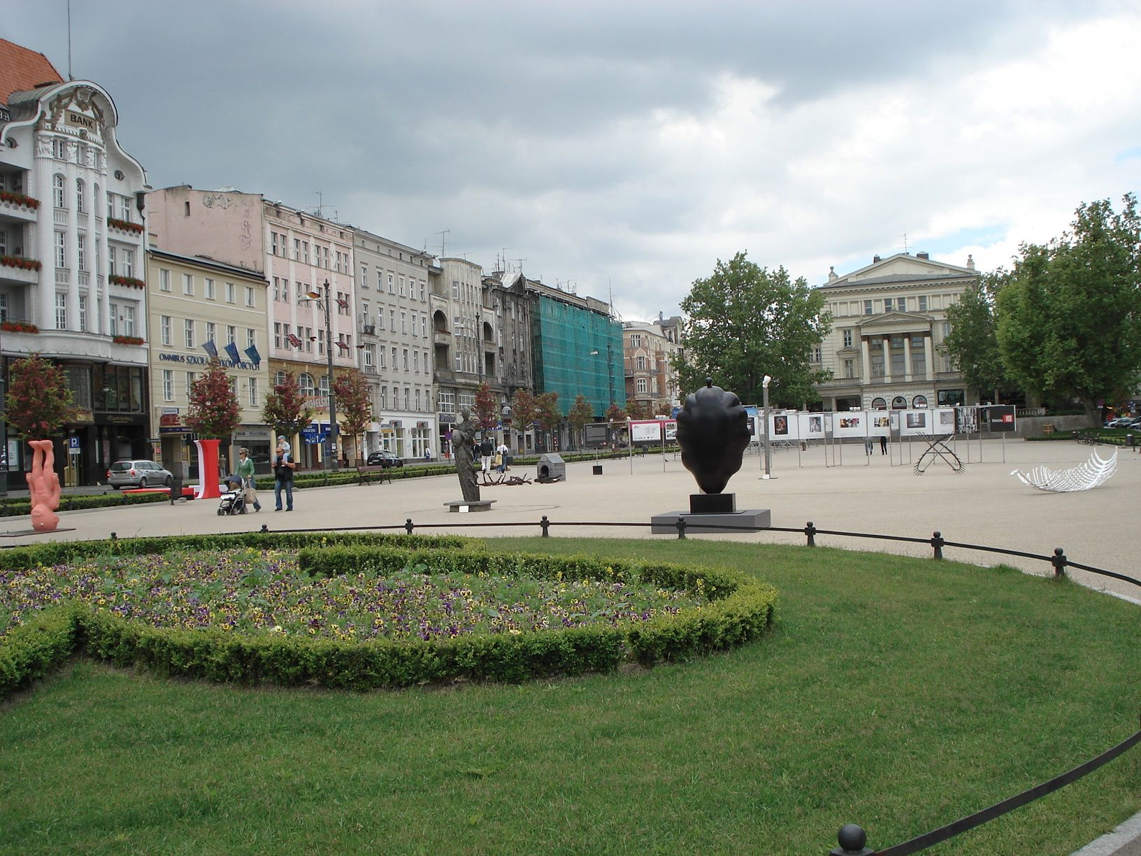 Wolności Square in Poznań during the open-air modern sculpture exhibition, May 2008